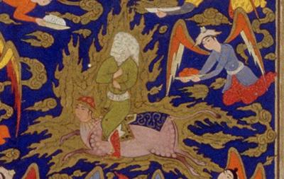 The Ascent of Mohammed, as depicted in a Persian manuscript. Opaque watercolor and gold on paper, c. 1570. From the collection of the Fine Arts Museum of San Francisco. Mohammed upon his winged steed al-Burak ascending into heaven.